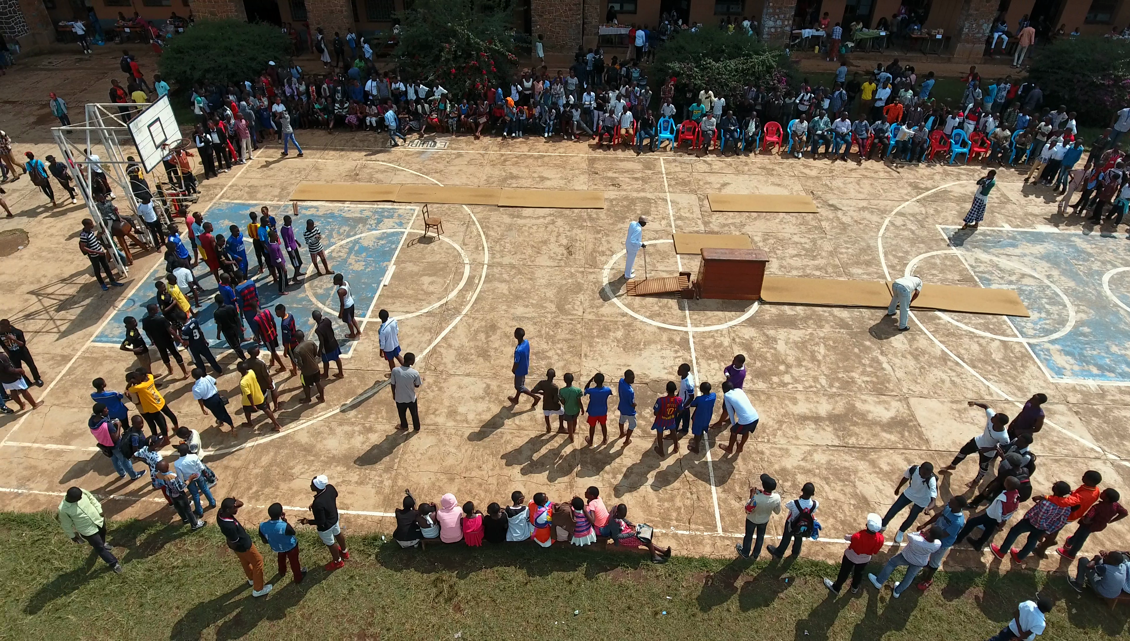 This is an image of "African people at work" from Democratic Republic of the Congo